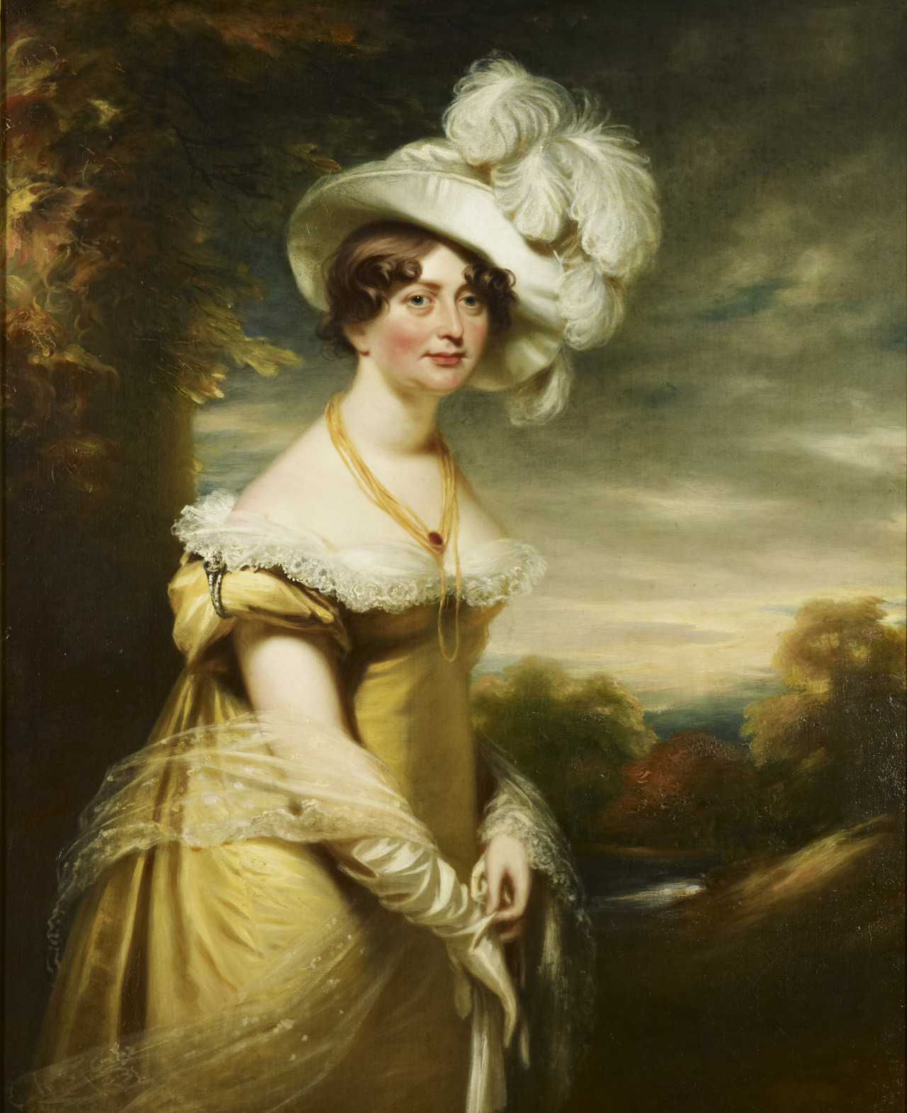 Copy of the portrait exhibited at the Royal Academy in 1819 and now in the Baltimore Museum of Art in Baltimore, MD.